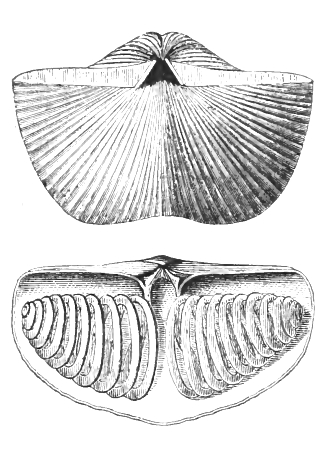 Sprifer striatus bottom: Interior of Dorsal Valve